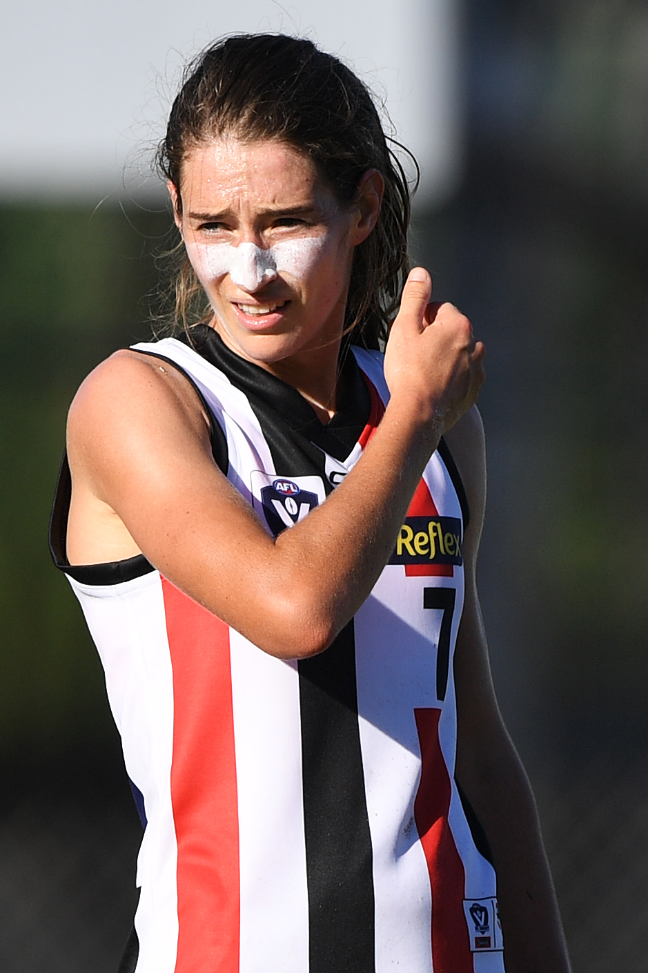 Cat Phillips of the Southern Saints during the 2019 VFLW round 2 match between NT Thunder and the Southern Saints at TIO Stadium on Saturday, 18 May 2019 in Darwin, Northern Territory.